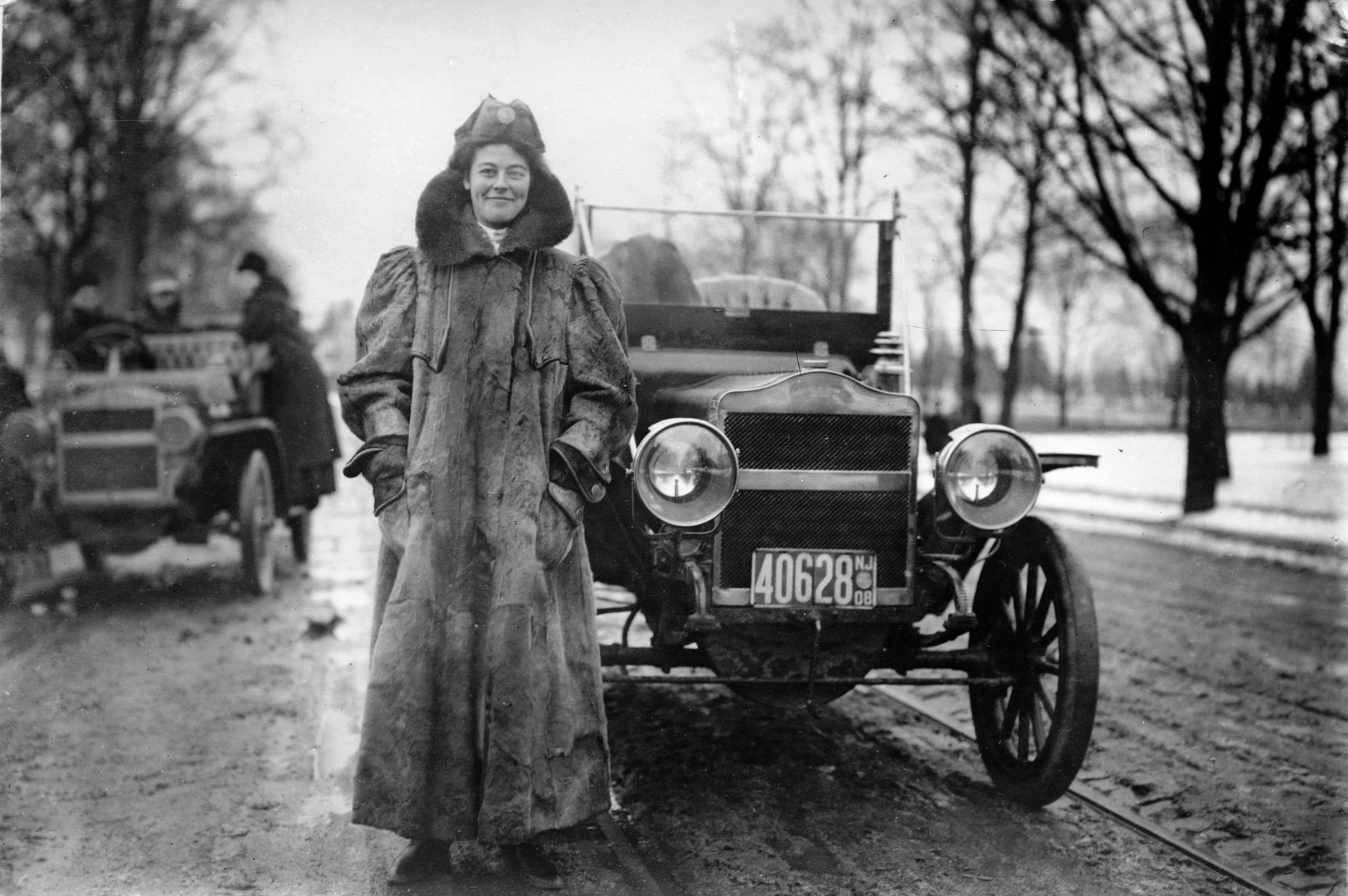 Alice Huyler Ramsey, standing beside her auto